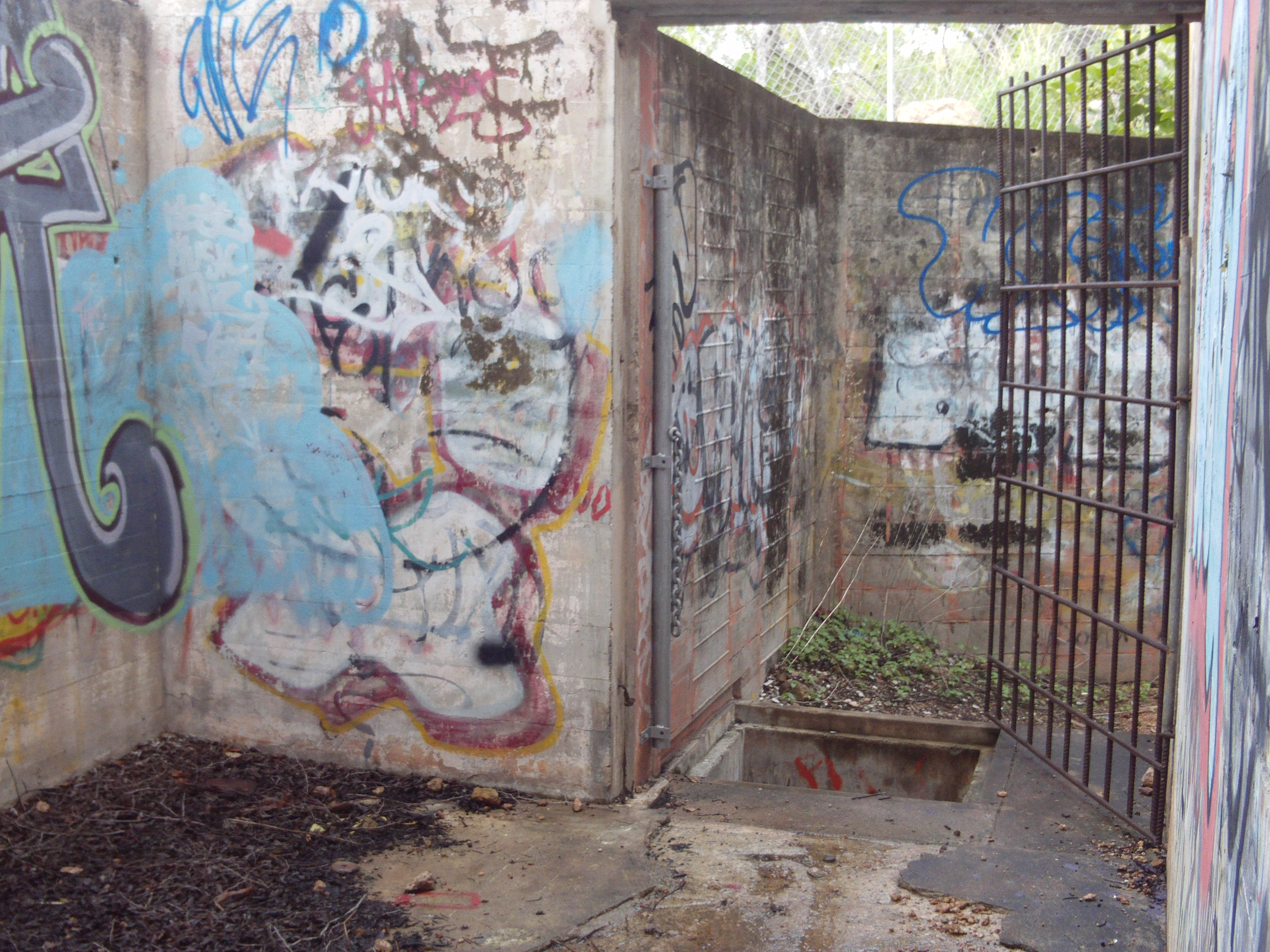 The Main Entrance to the Bunker of No. 3 Fighter Sector RAAF